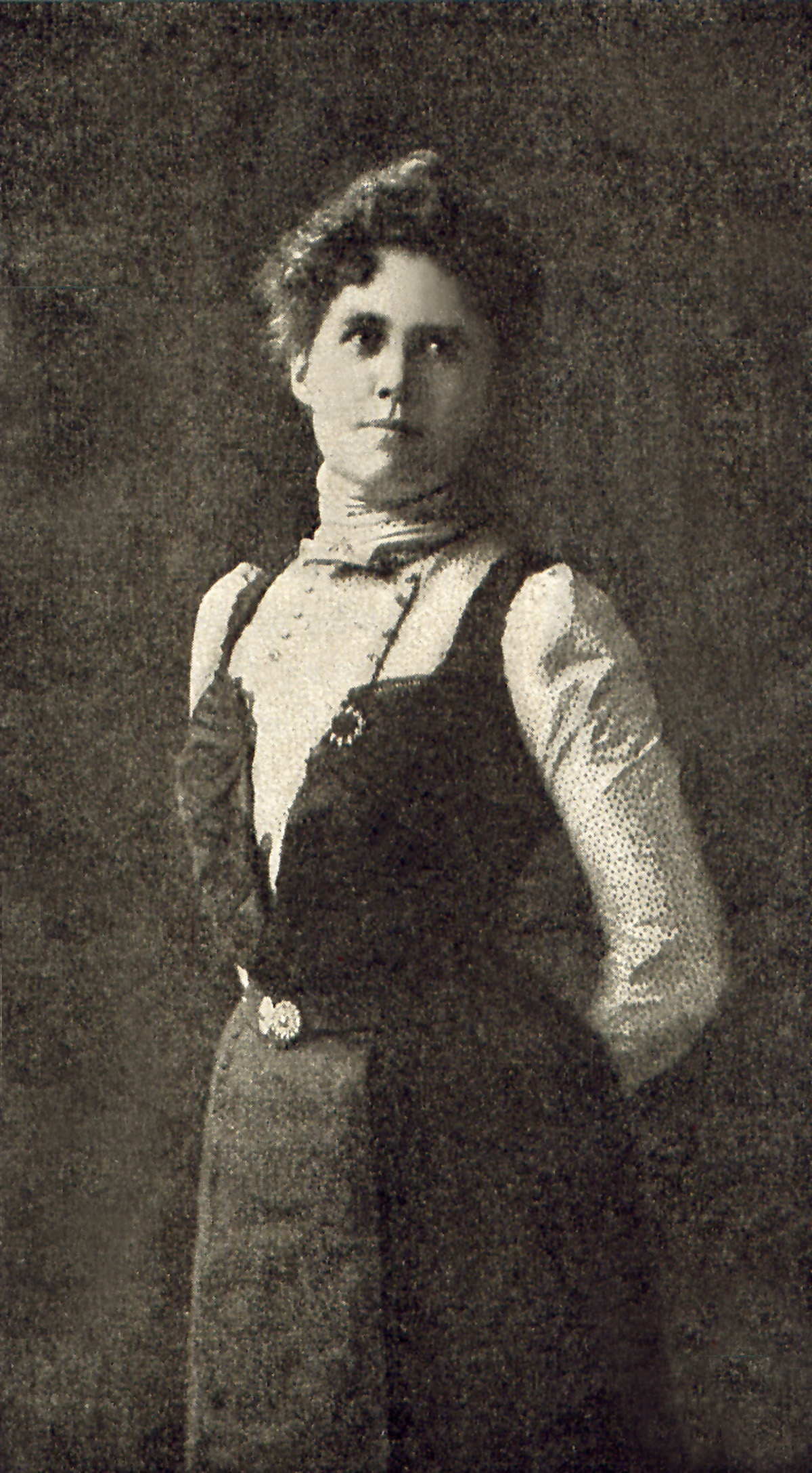 Photo of Helen Churchill Candee, created and published in 1901. Image is in public domain. From personal collection of owner, Randy Bryan Bigham.